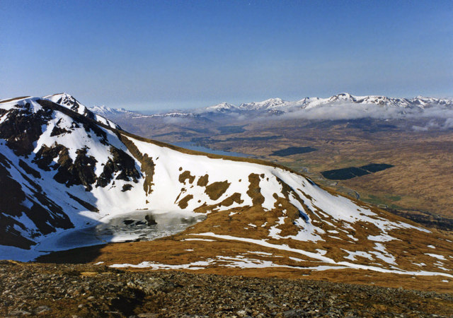 View from Beinn a Chreachain. Loch Tulla in the distance.